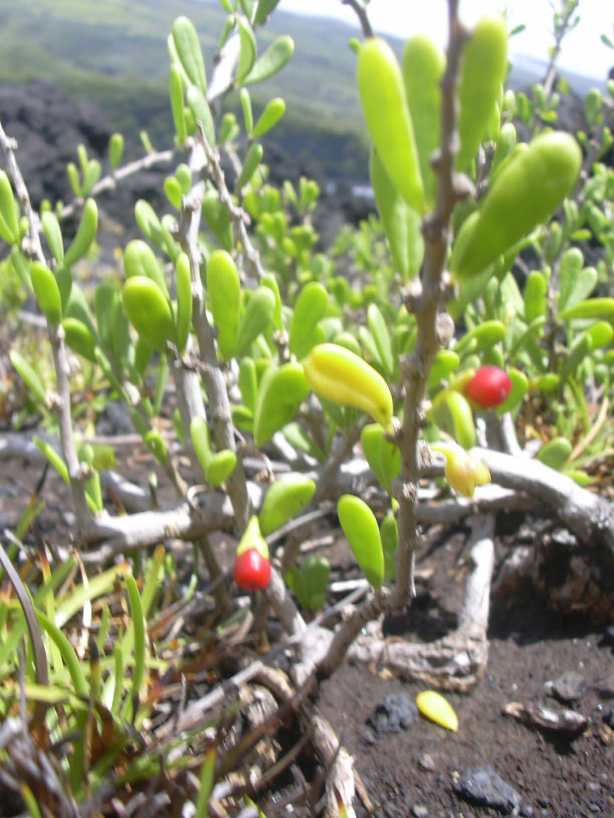 Lycium sandwicense (fruit). Location: Maui, Puhilele Pt Haleakala National Park